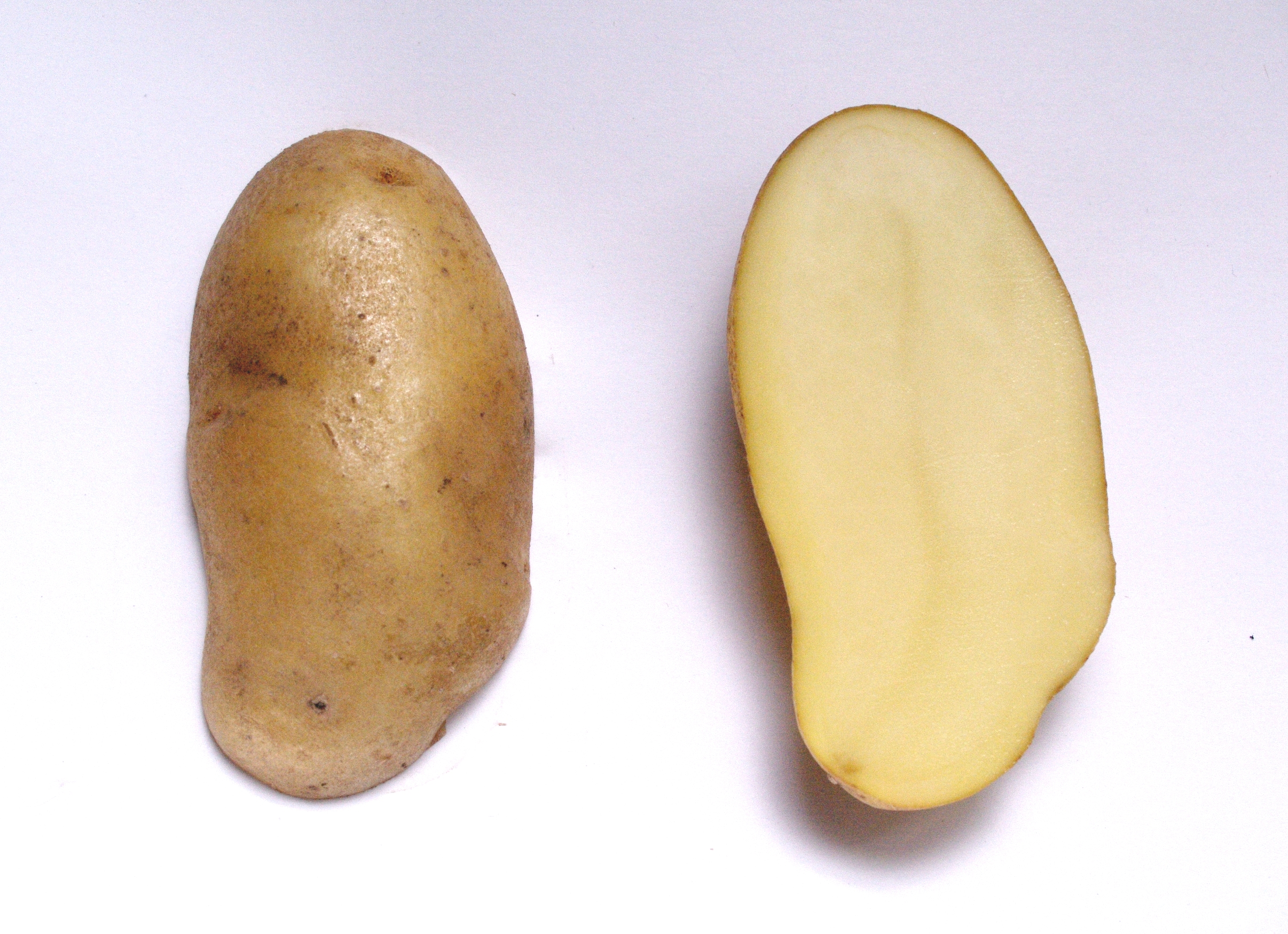 Potato cultivar "MayQueen"